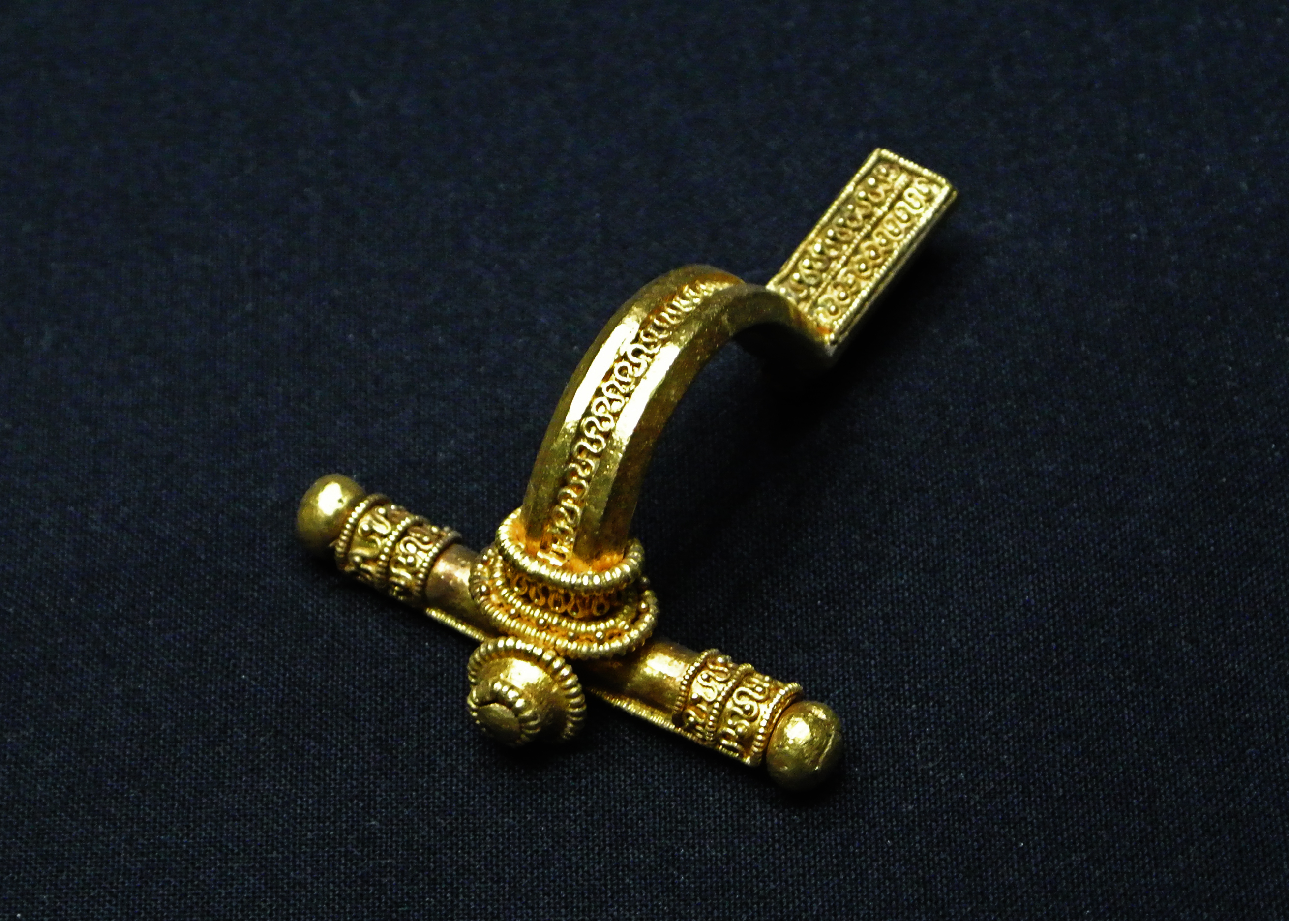 Roman fibula